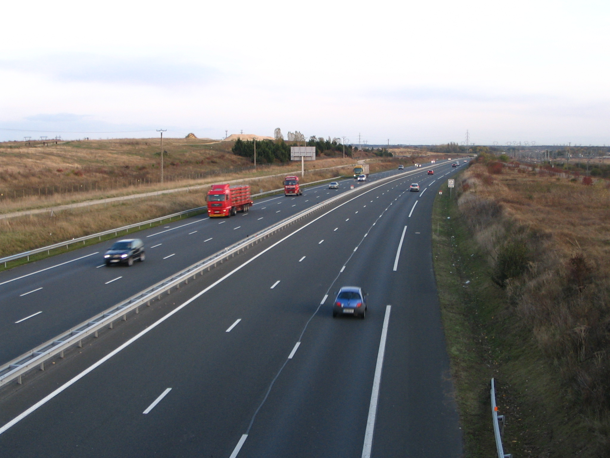 French motorway number A5, near Fouju, Seine-et-Marne, France.